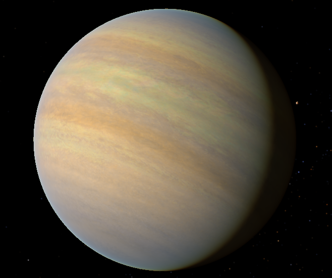 The microlensing planet MOA 2007-BLG-400Lb